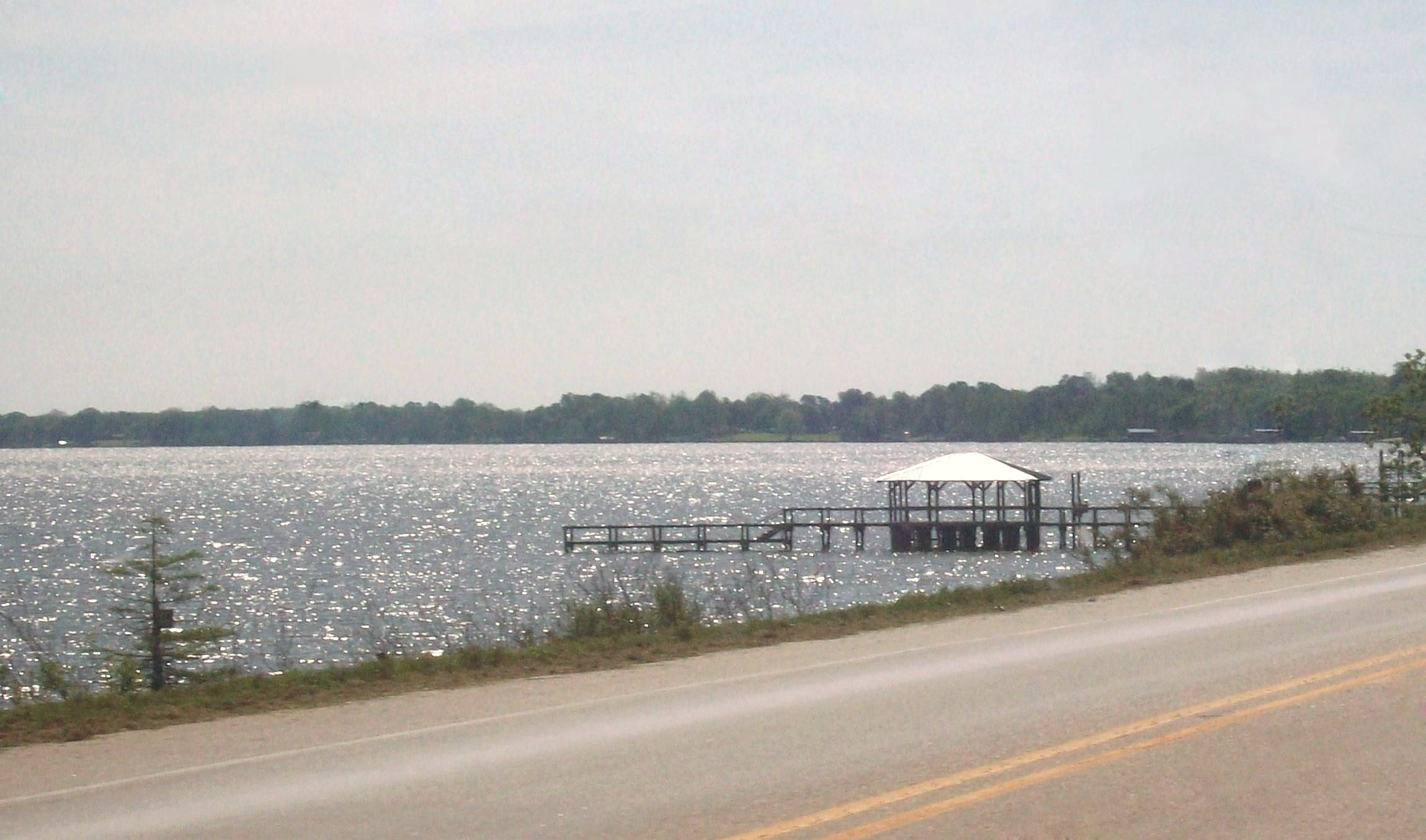 An image of Lake Chicot taken from US 82